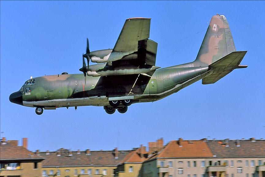 Lockheed C-130E-LM Hercules 62-1828 Aircraft fitted with various sensors and used during early 1980s by 7405th Operations Sqdn as spyplane operating from Frankfurt/Rhein-Main AB, West Germany. To AMARC as CF0188 May 15, 1998.